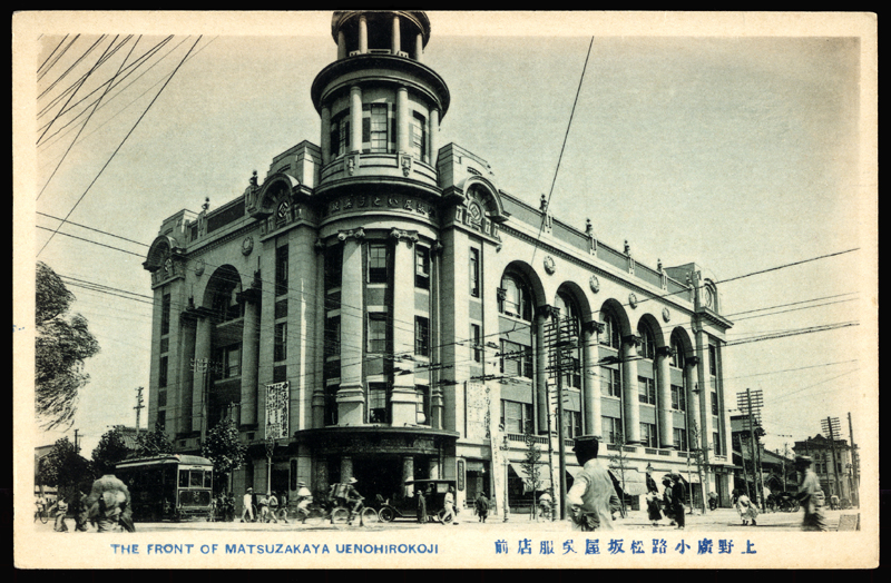 Japanese postcard showing the Matsuzakaya Department Store in Hirokoji, Ueno, Tokyo